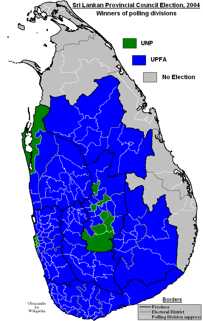 Map showing winners of polling divisions in the Sri Lankan provincial council election of 2004.